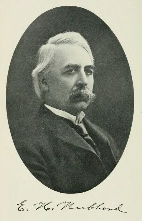 Portrait in History of Iowa From the Earliest Times to the Beginning of the Twentieth Century